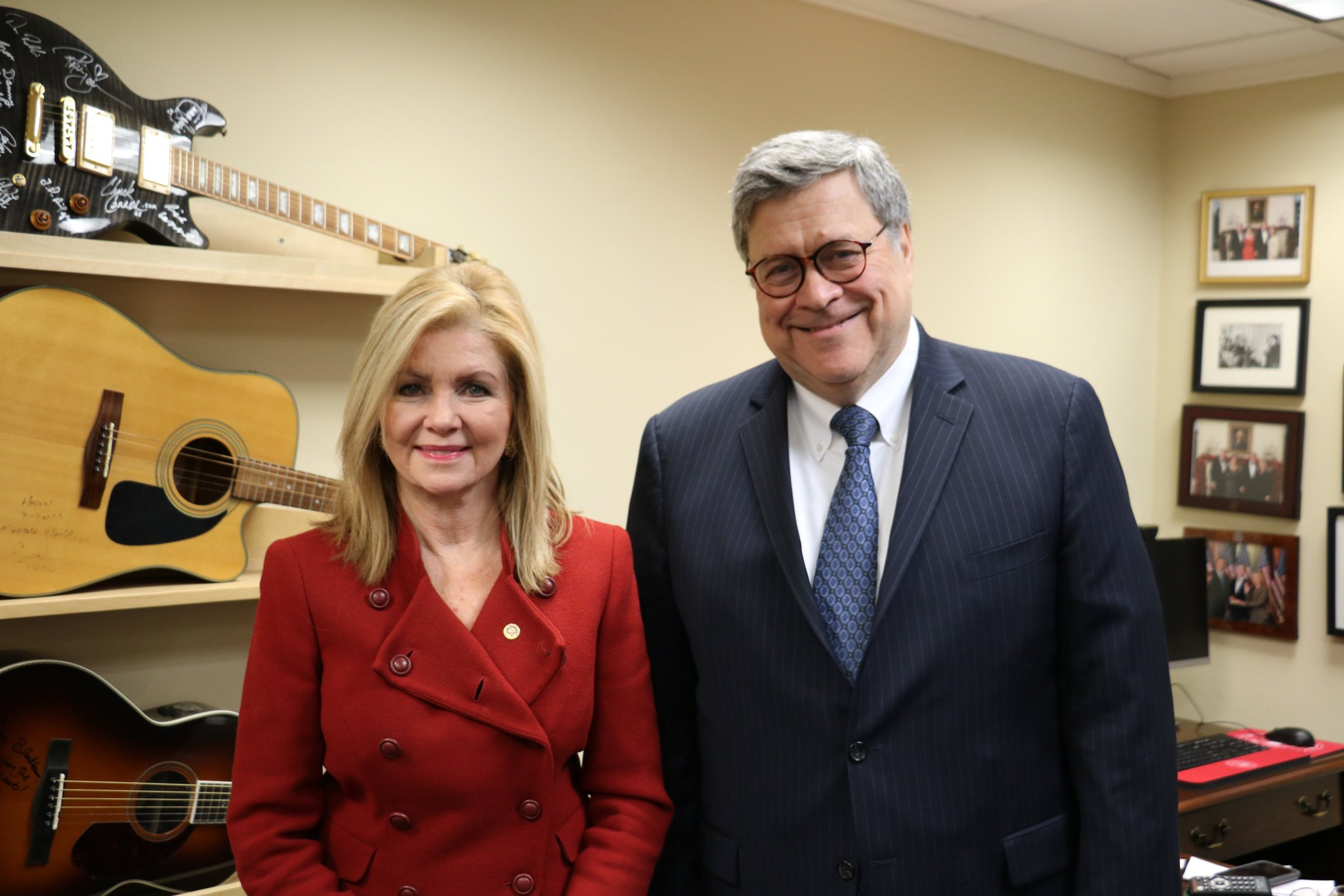 On Thursday, Senator Blackburn met with Bill Barr, President Trump’s nominee to serve as Attorney General. Blackburn said Barr’s experience working under President George H.W. Bush and legal expertise made him a great candidate for the position. As a member of the Senate Judiciary Committee, Blackburn will be questioning Barr at his confirmation hearings next week.